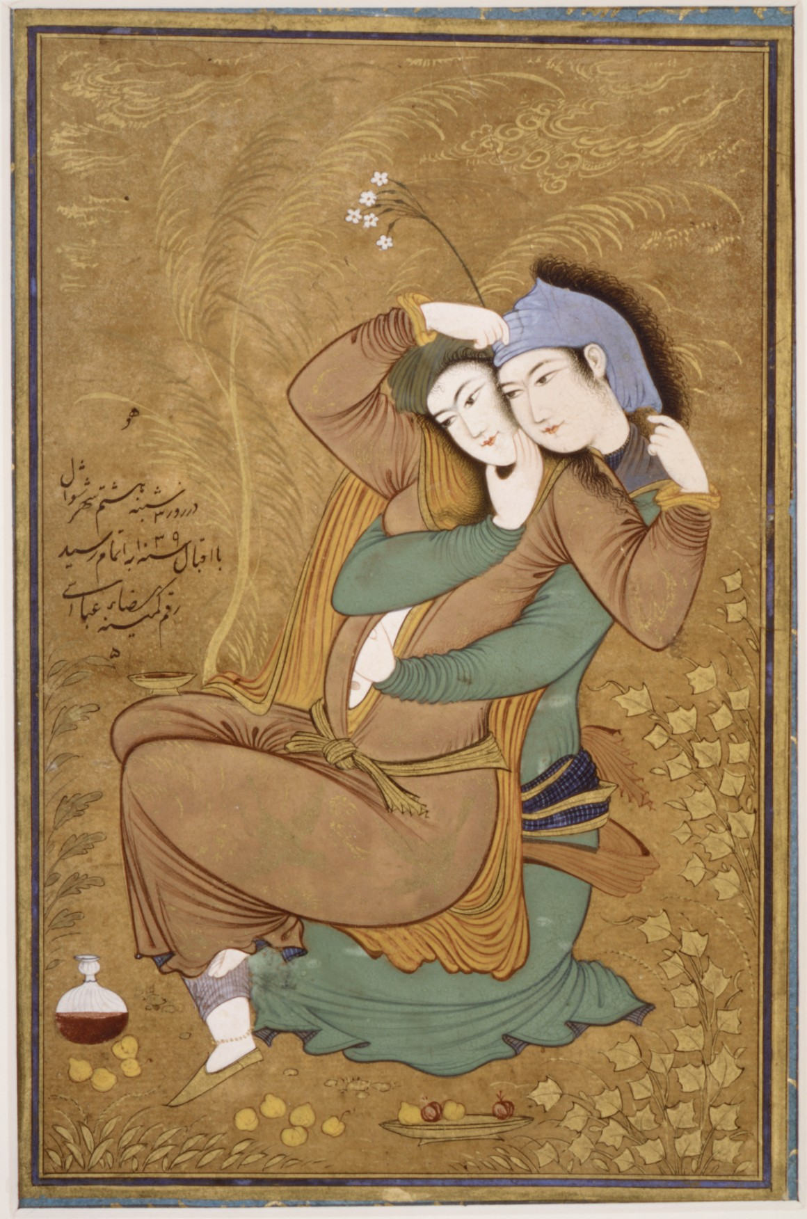 Illustrated single work; Codices